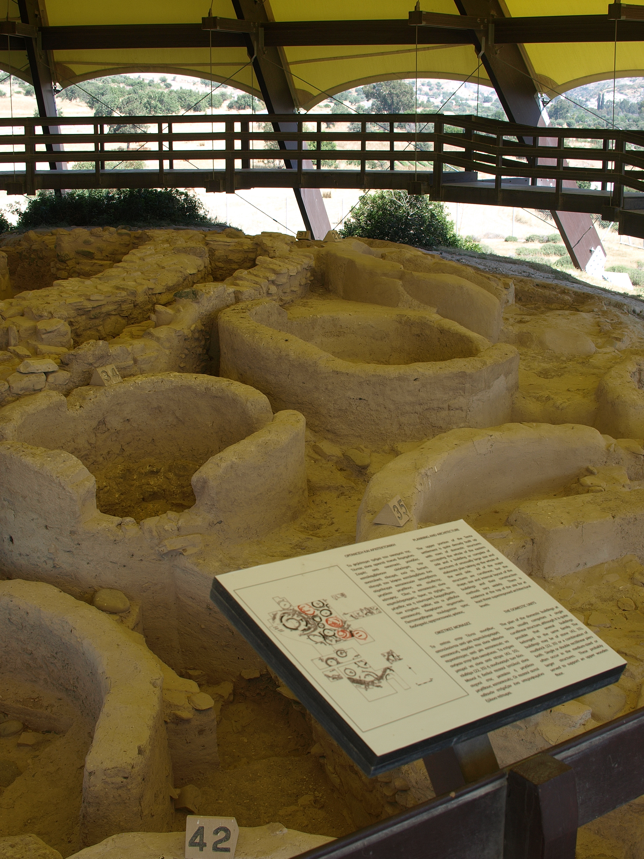 The archeologic site of Kalavasos-Tenta in Cyprus with early remains of human habitation during Aceramic Neolithic period